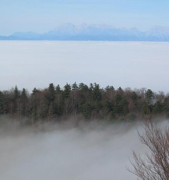 View from Krim, Slovenia (fog above the city Ljubljana, distance- in the middle: Alps; mountains Kočna and Grintavec) by: Sl-Ziga